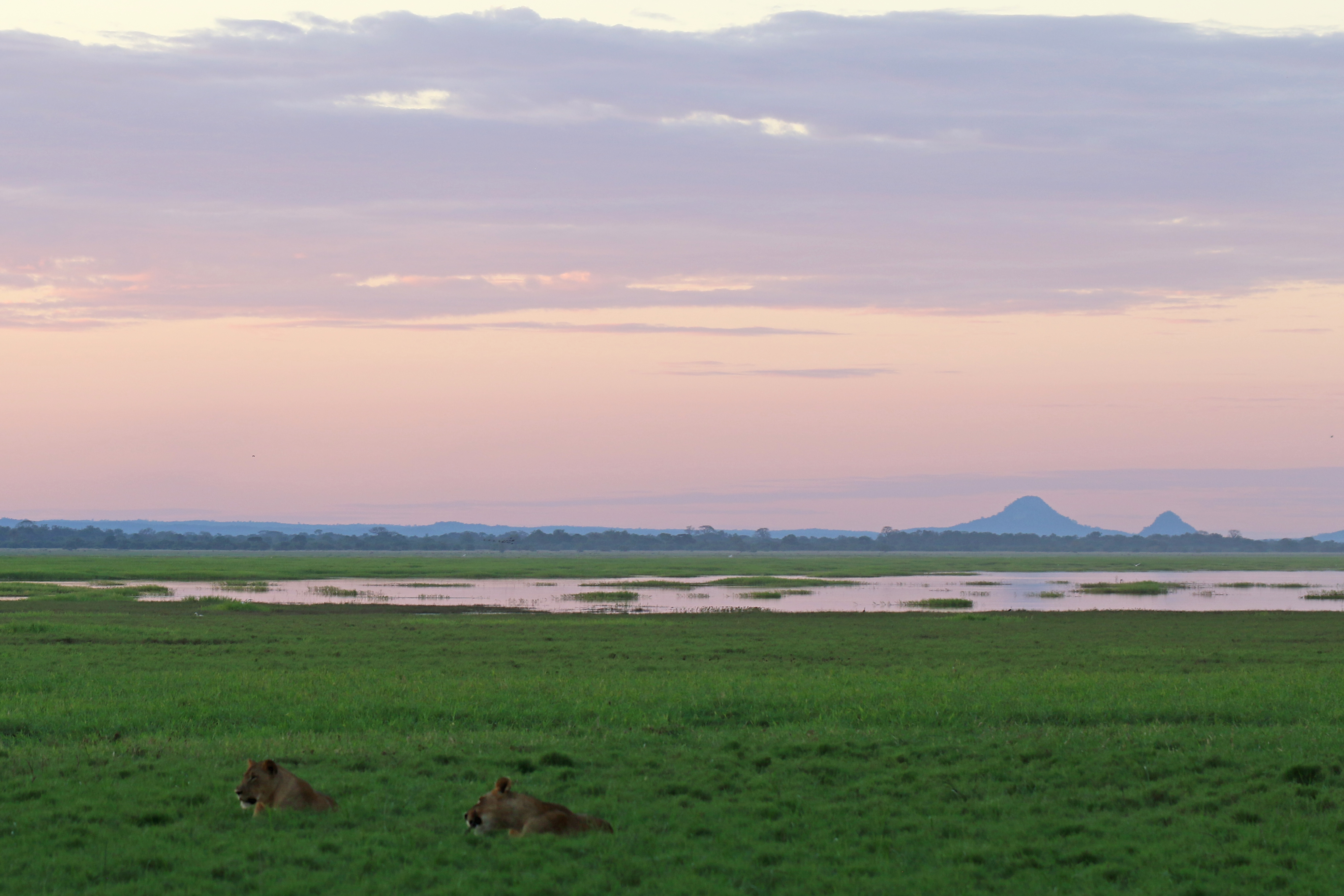 Mt. Gorongosa with lions in foreground, Gorongosa National Park, Mozambique